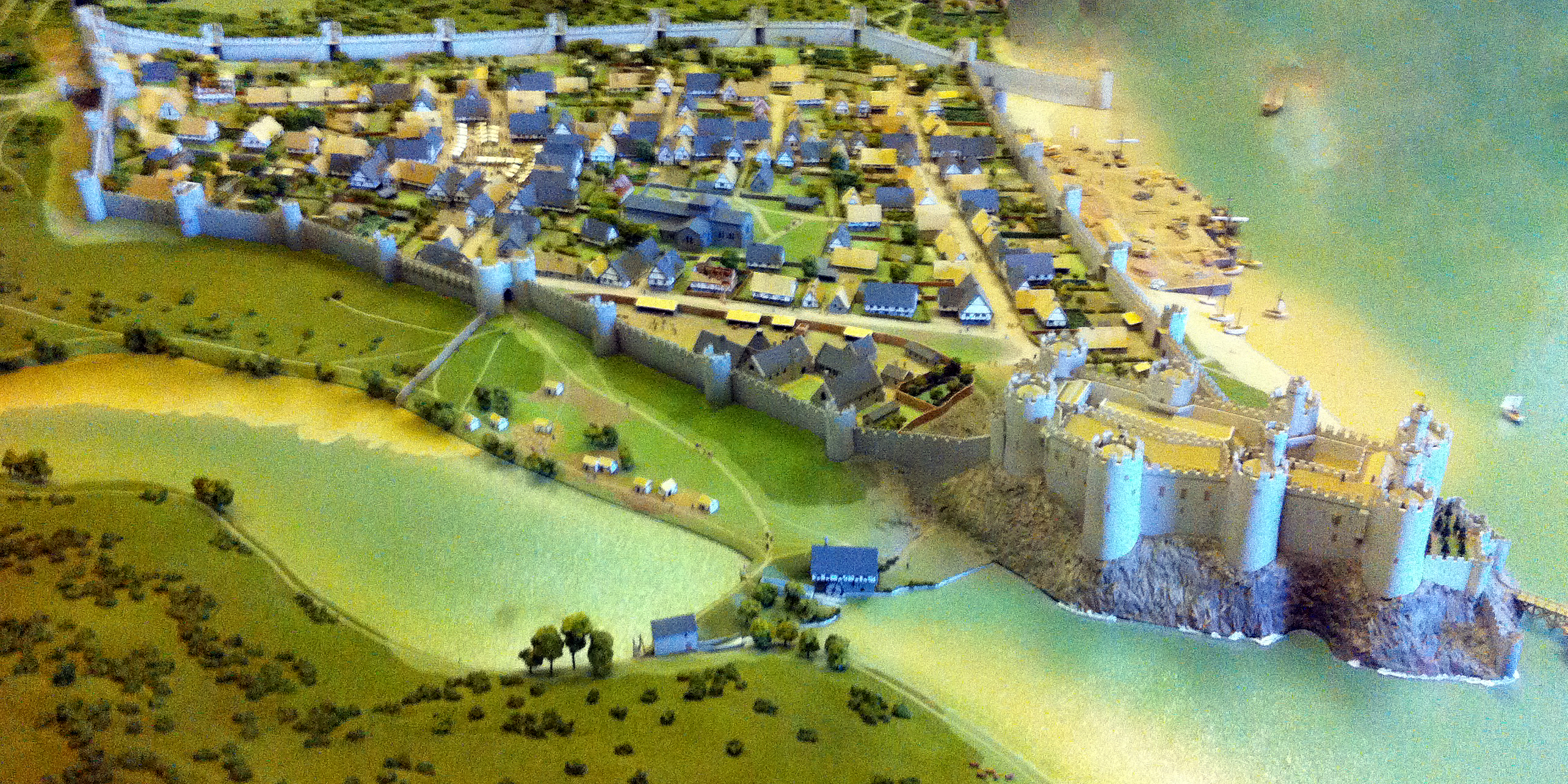 Recreation of Conwy Castle, early 1300s